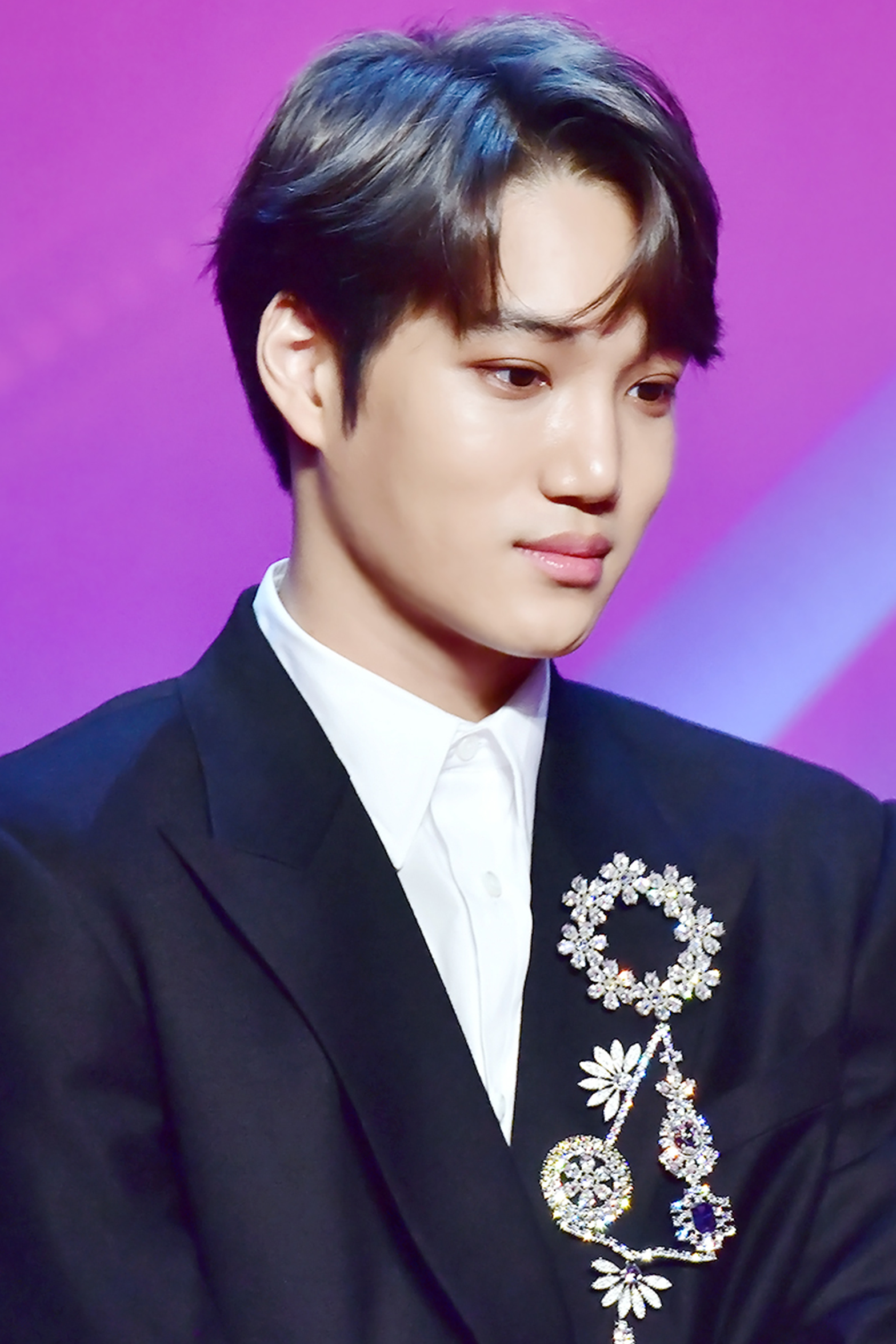 Kai during the 19th Mnet Asian Music Awards in Hong Kong on December 1, 2017.